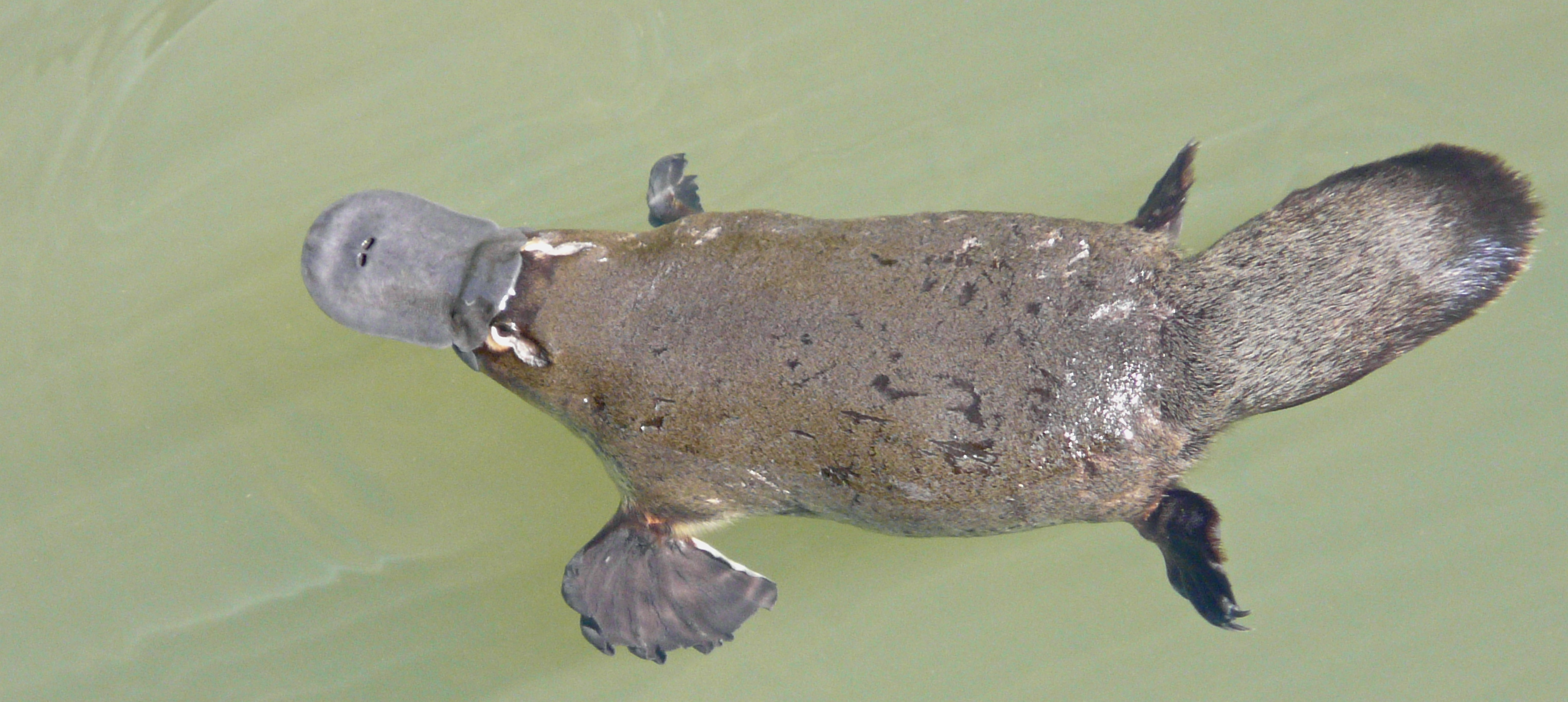 Feeding Platypus